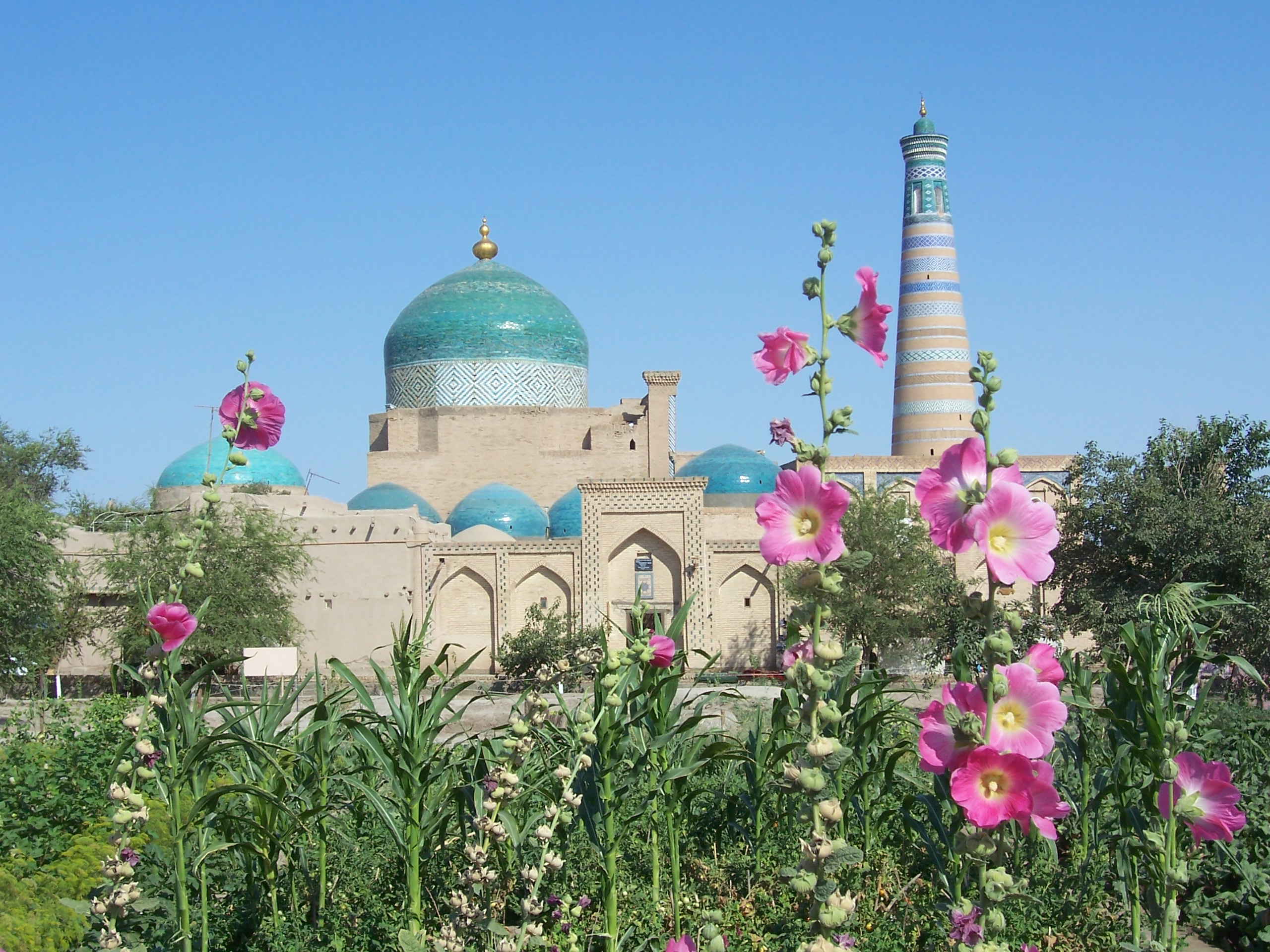 Medersa and minaret of the imam Hoja